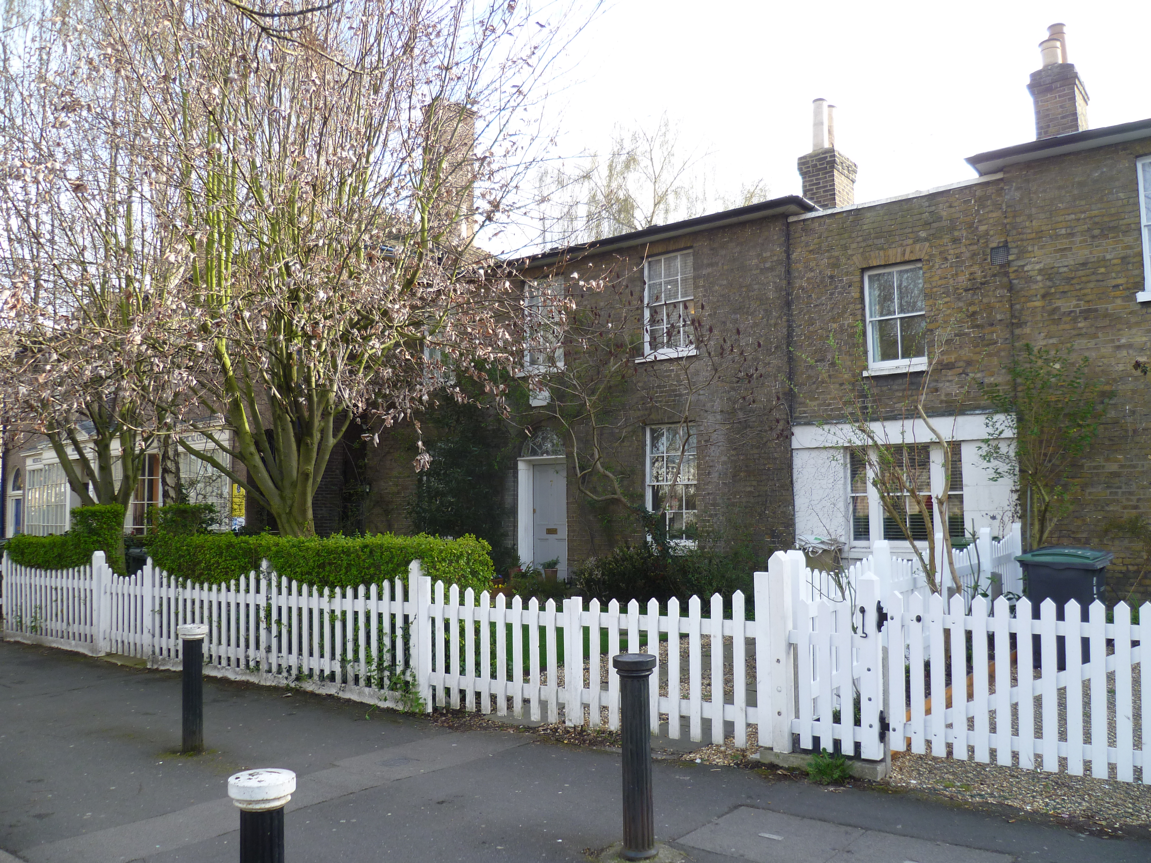 London